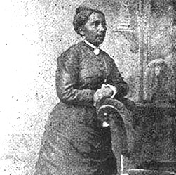 Elizabeth Jennings Graham, a key figure in the movement for civil rights for African-Americans in the 19th century